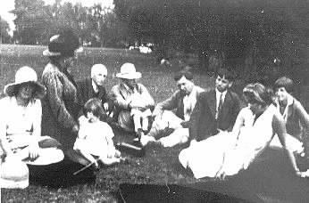 Spencers by the picknick